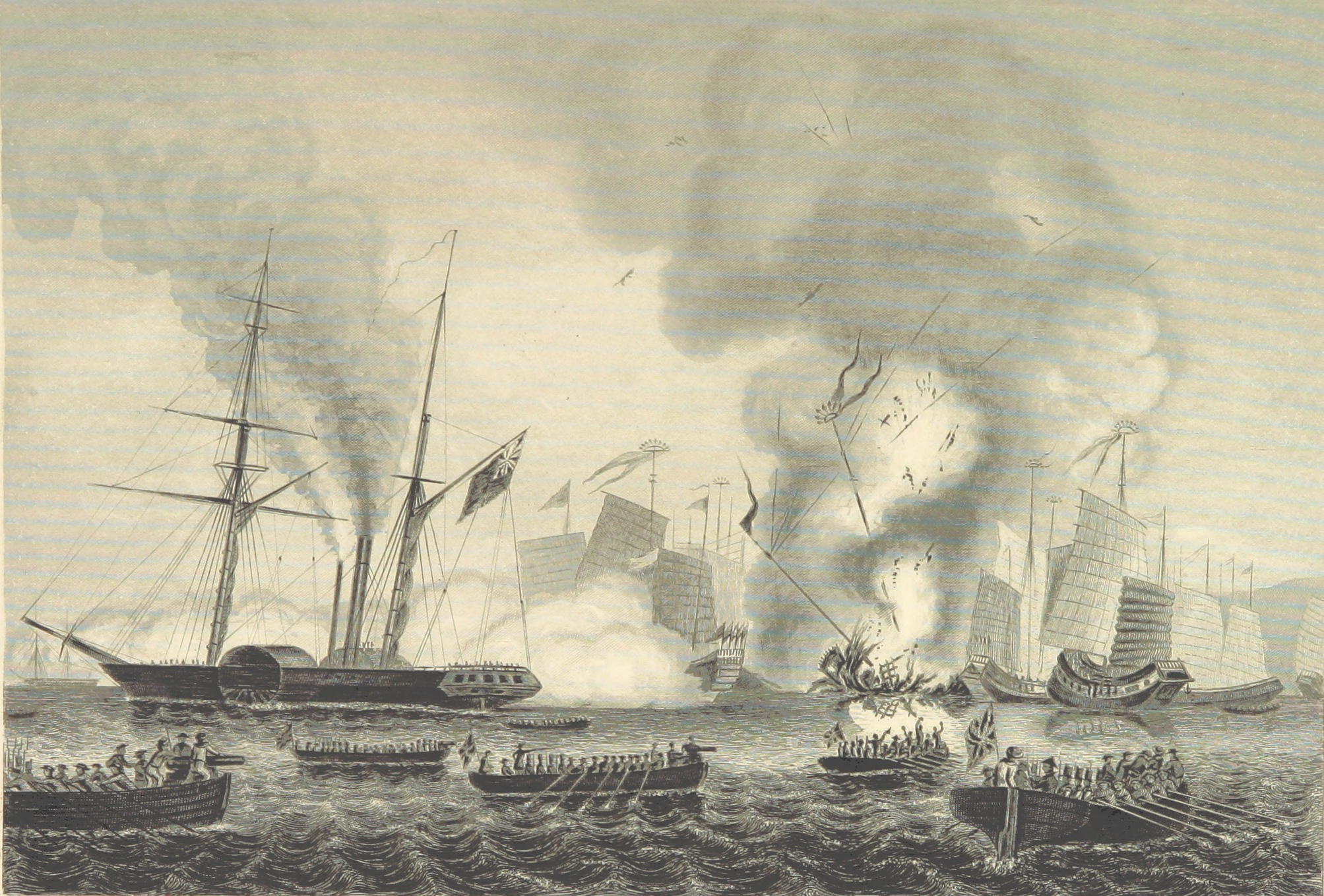 The Nemesis and boats of the Sulphur, Calliope, Larne, and Starling destroying the Chinese war junks in Anson's Bay, 7 January 1841.